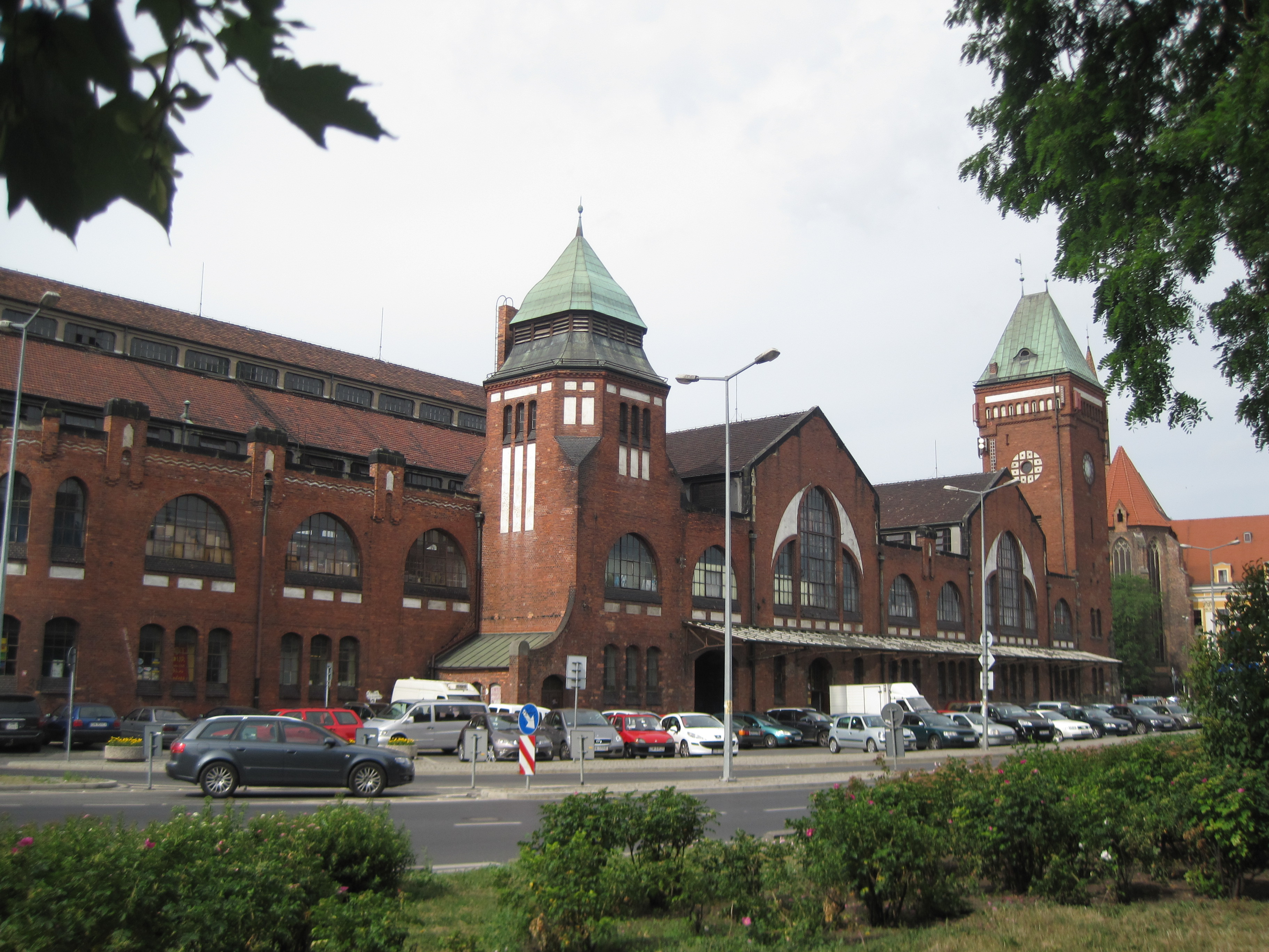 Wrocław Market Hall, view from the riverside.